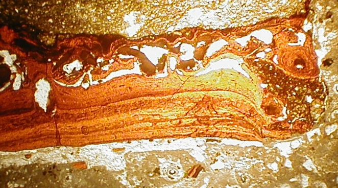 Shock-melted glass fragment in an Azuara polymictic dike breccia. Thin section micrograph.The field is 9mm wide.